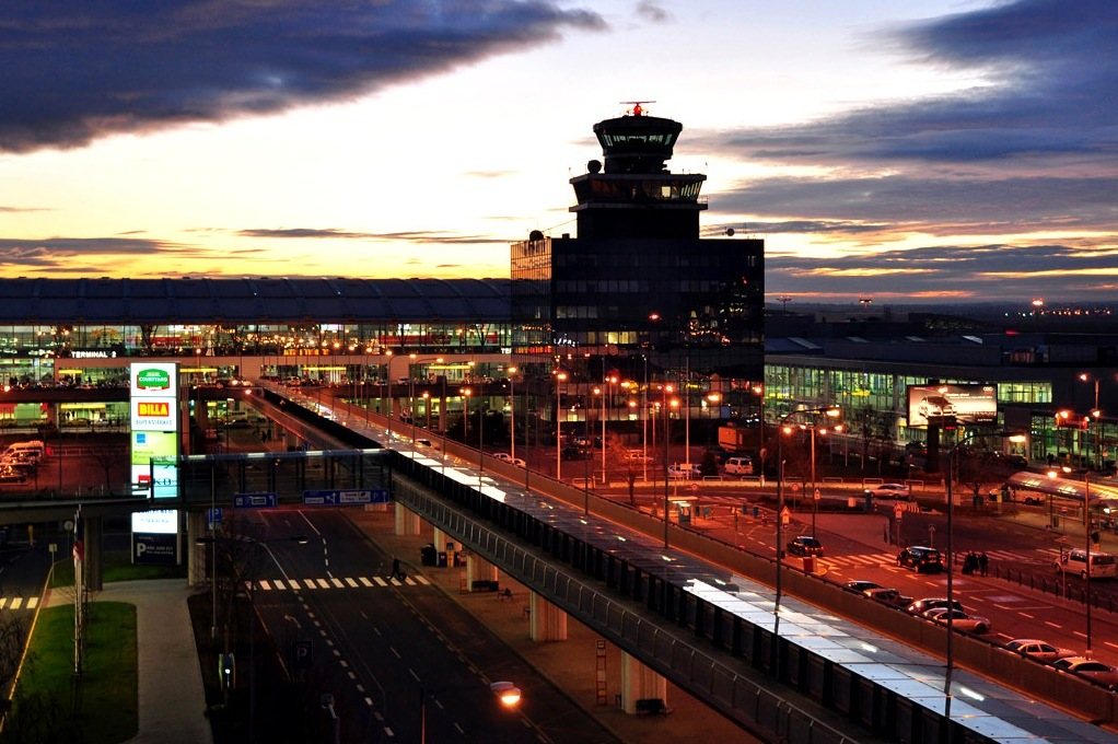 Prague - Ruzyně International airport at sunset